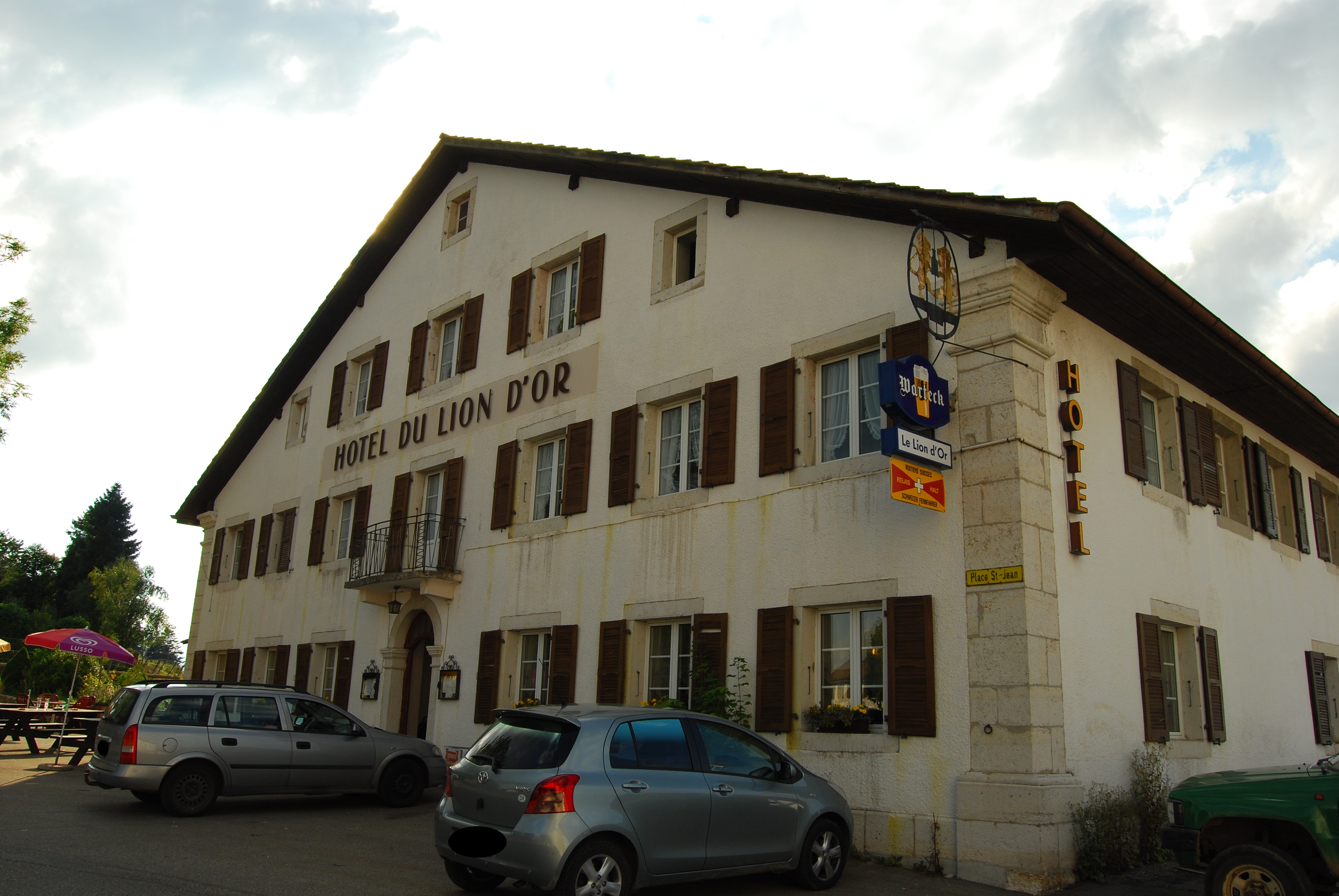 Hotel du Lion d'Ore at Montfaucon, canton of Jura, SwitzerlandEsperanto: Hotelo du Lion d'Or en Montfaucon, Kantono Ĵuraso, Svislando